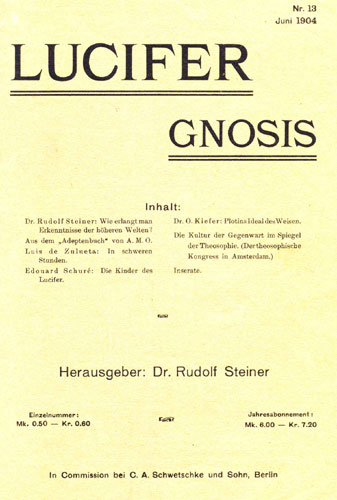 Cover of the magazine Lucifer-Gnosis from June 1904, published by Rudolf Steiner